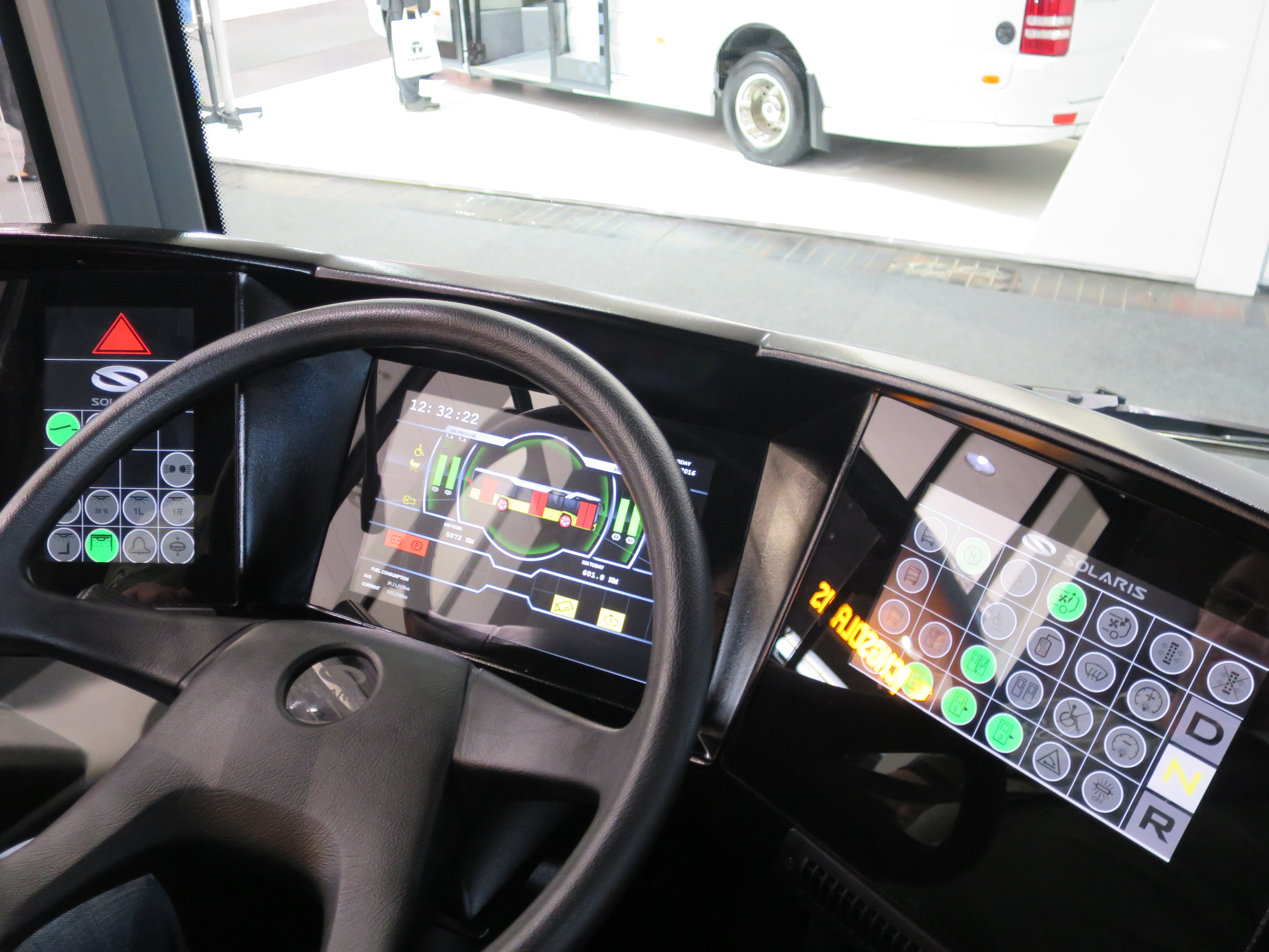 The making of this document was supported by Wikimedia Polska Association, within Wikigrant no. WG 2016-35. Solaris Urbino 12 Hybrid